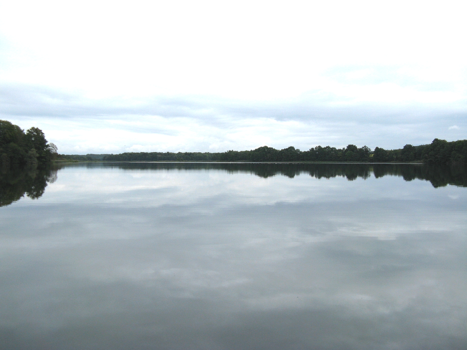 Lake Woseriner See (Hofsee) in Woserin, Mecklenburg-Vorpommern, Germany; view to northeast